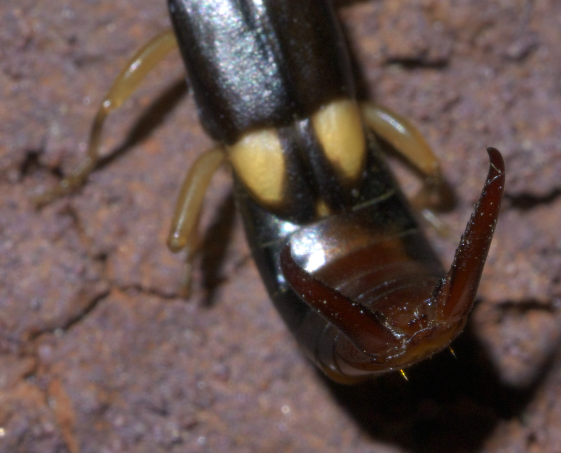 Vostox brunneipennis, Family: Little Earwigs, ID Confidence: 90